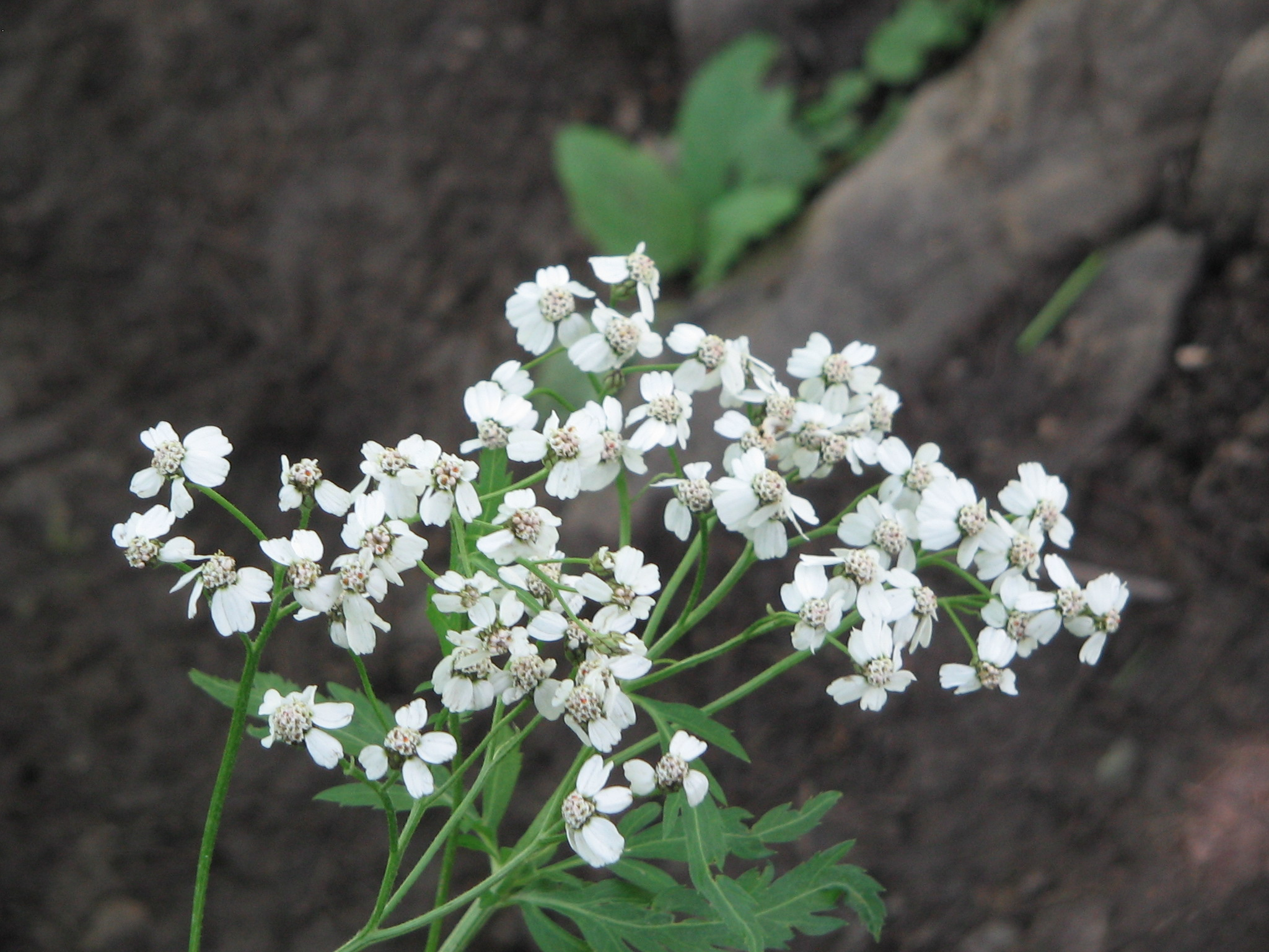 Achillea macrophylla